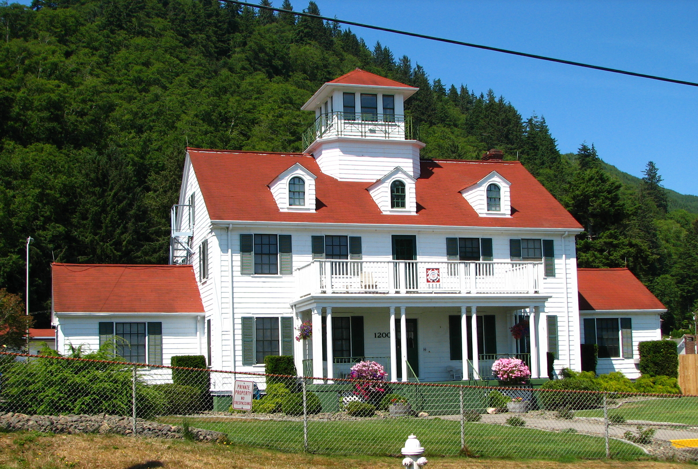 The main building of Coast Guard Station Tillamook Bay (built 1942), located on Highway 101 in Garibaldi, Oregon, United States, is listed on the US National Register of Historic Places.